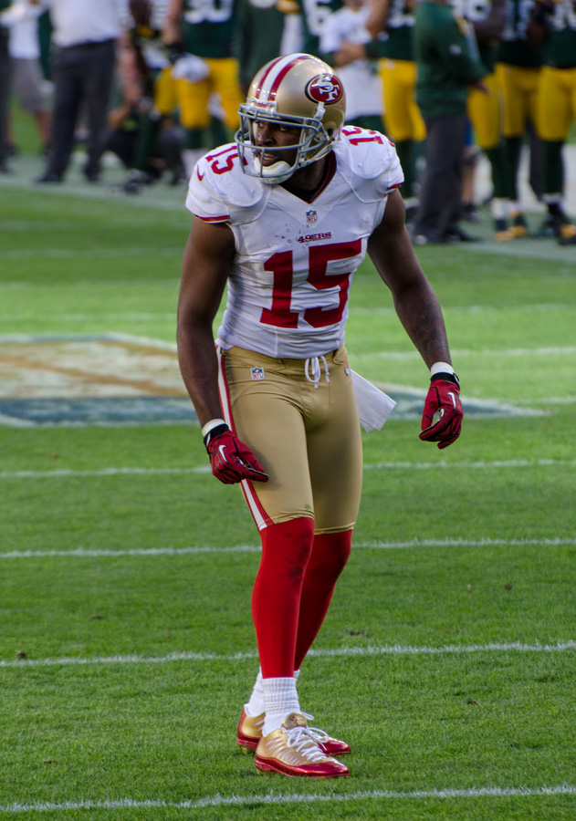 San Francisco 49ers vs. Green Bay Packers at Lambeau Field on September 9, 2012. Photo by Mike Morbeck.